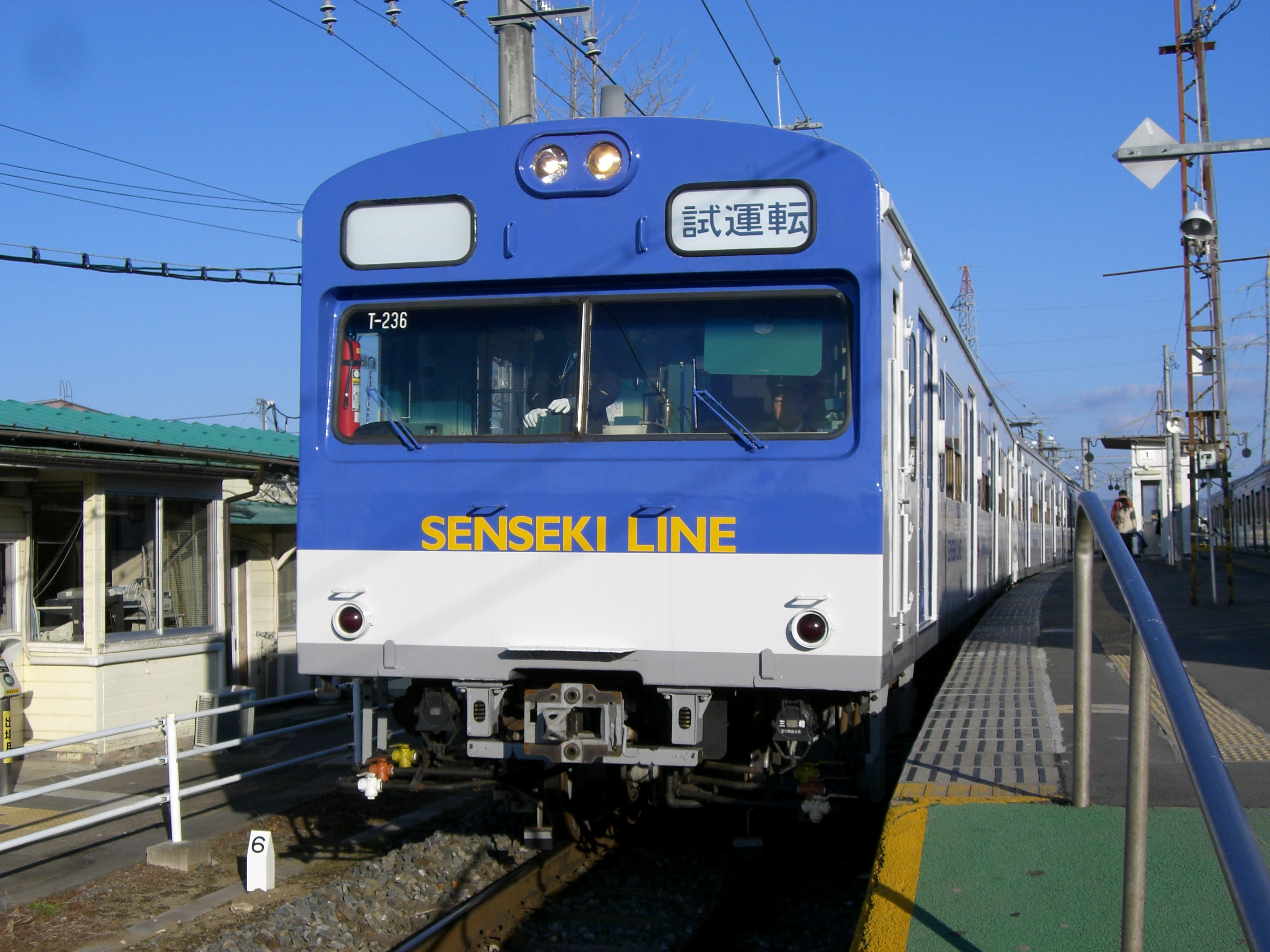 JR East 103 series EMU on a trial run at Senseki Line Rikuzen-Akai Station